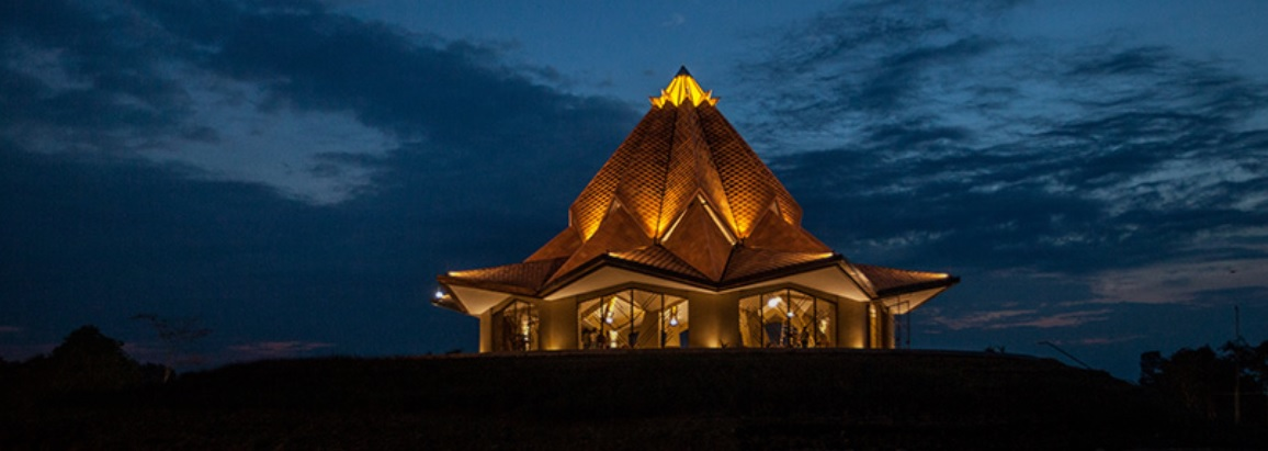 Bahá'í House of Worship in Norte del Cauca, Colombia